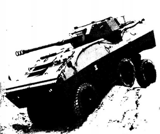 EE-11 Urutu armored personnel carrier with a 90mm gun, Central Intelligence Agency file photo.